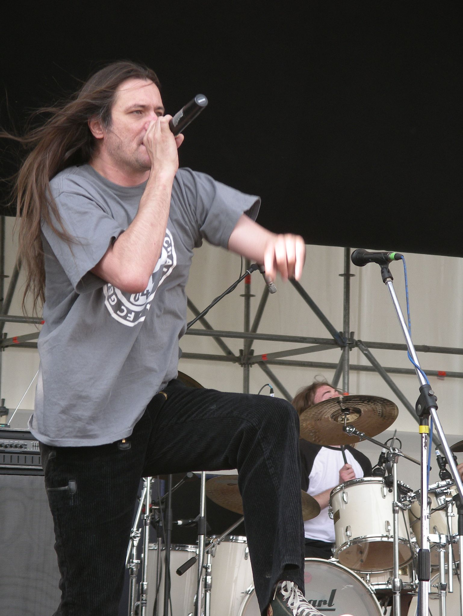 Tom Angelripper (Sodom) live at Iron Fest 2005.